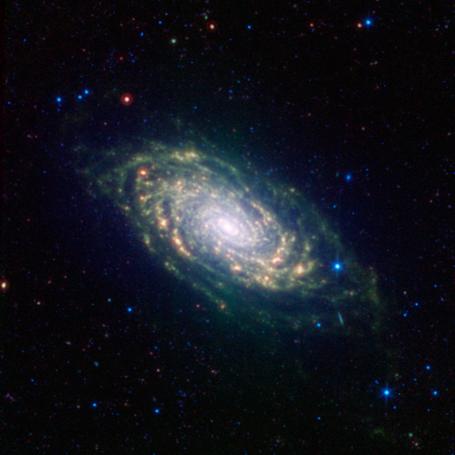 The various spiral arm segments of the Sunflower galaxy, also known as Messier 63, show up vividly in this image taken in infrared light by NASA's Spitzer Space Telescope. Infrared light is sensitive to the dust lanes in spiral galaxies, which appear dark in visible-light images. Spitzer's view reveals complex structures that trace the galaxy's spiral arm pattern. Messier 63 is 37 million light years away -- not far from the well-known Whirlpool galaxy and the associated Messier 51 group of galaxies. The dust, glowing red in this image, can be traced all the way down into the galaxy's nucleus, forming a ring around the densest region of stars at its center. The dusty patches are where new stars are being born. The short diagonal line seen on the lower right side of the galaxy's disk is actually a much more distant galaxy, oriented with its edge facing toward us. Blue shows infrared light with wavelengths of 3.6 and 4.5 microns, green represents 8.0-micron light and red, 24-micron light.